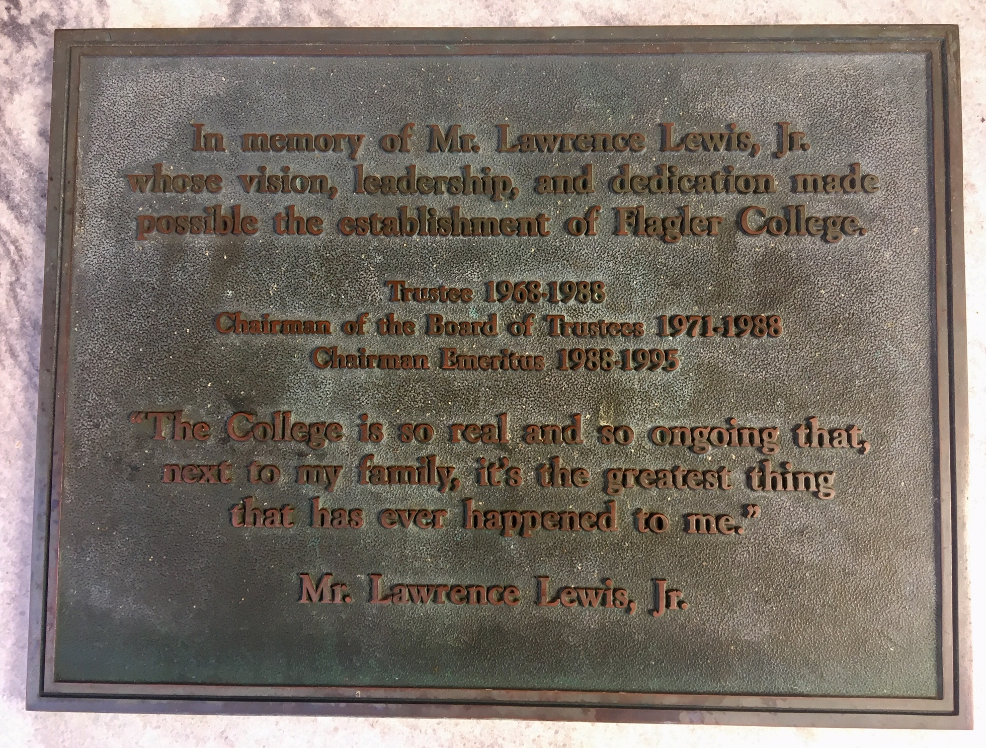 Memorial Plaque for Lawrence Lewis, Jr. in the pavilion at Flagler College in St. Augustine, Florida